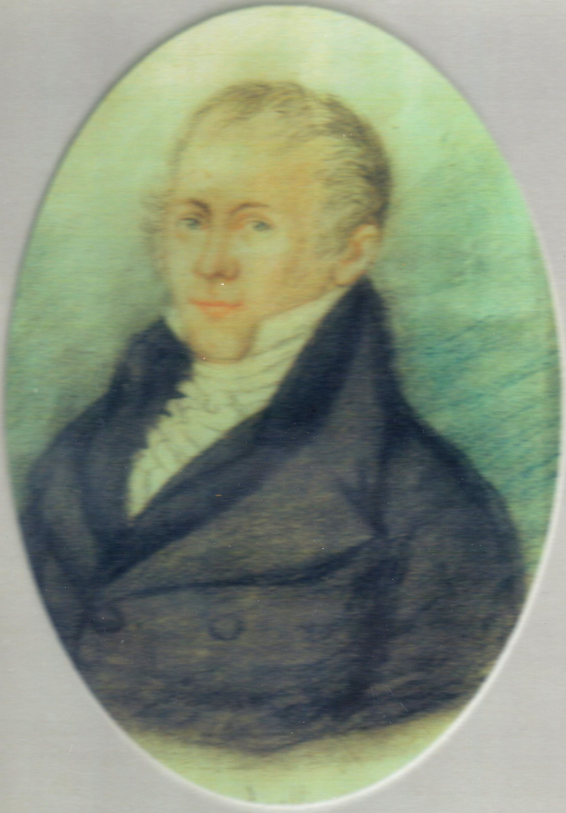 Contemporary portrait in pastels of the Italian poet and librettist, Angelo Anelli (1761 – 1820)